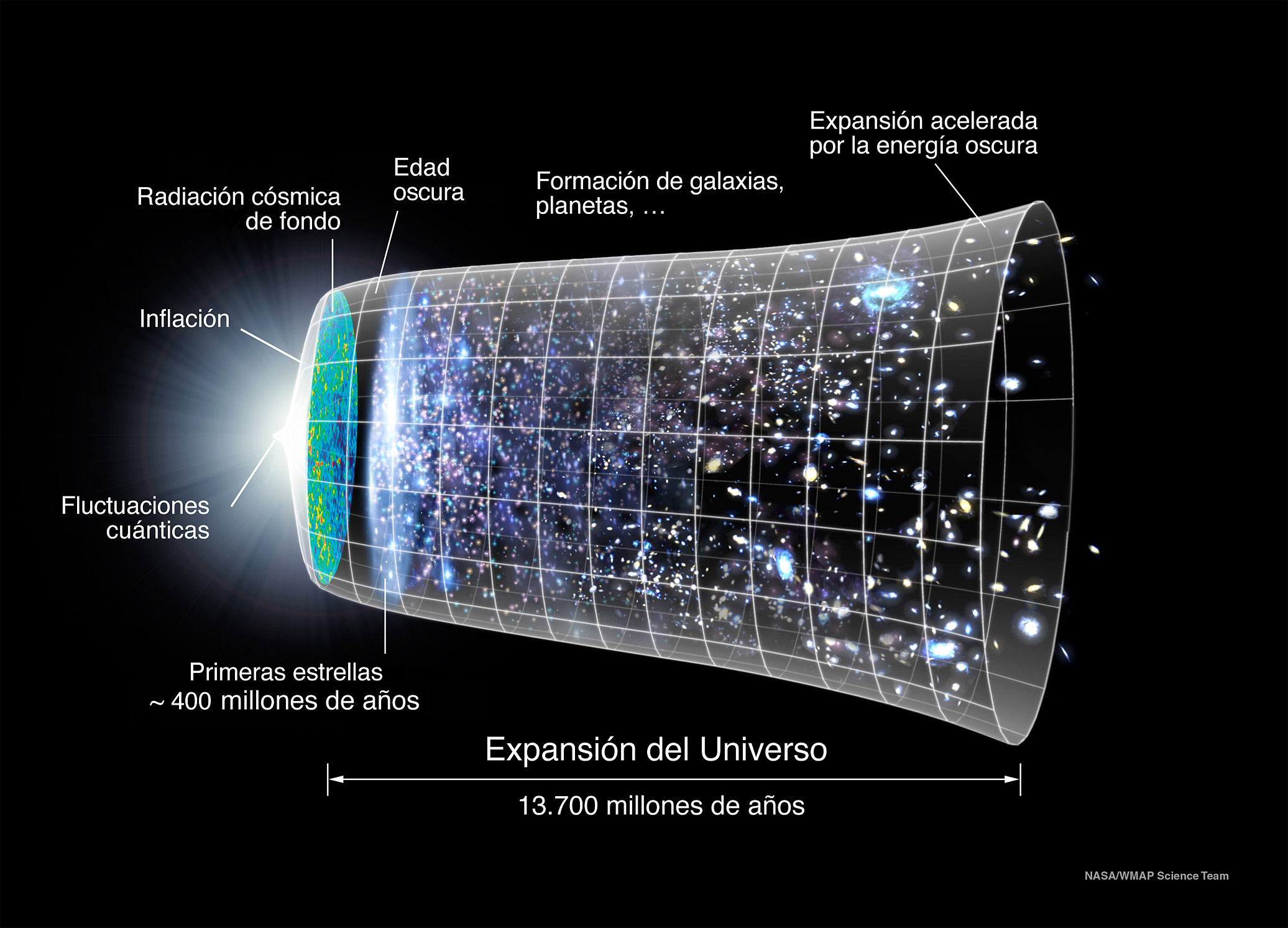 Universe expansion time line, in Spanish